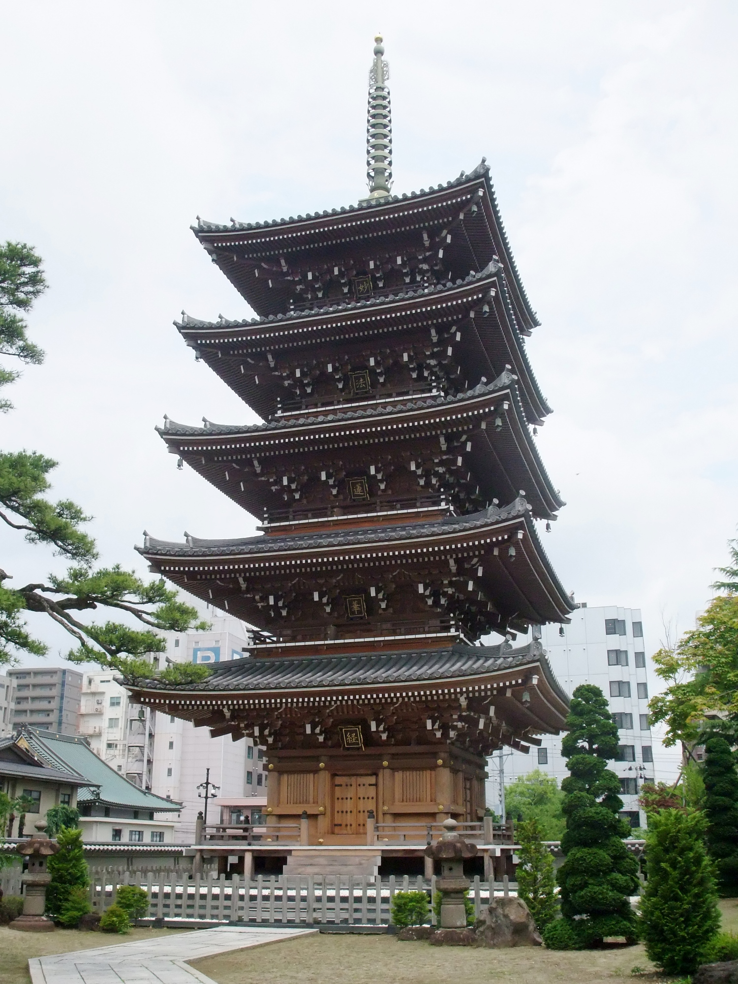 The Five-storied Pagoda at Kōshō-ji temple in Sendai-shi, Miyagi Prefecture